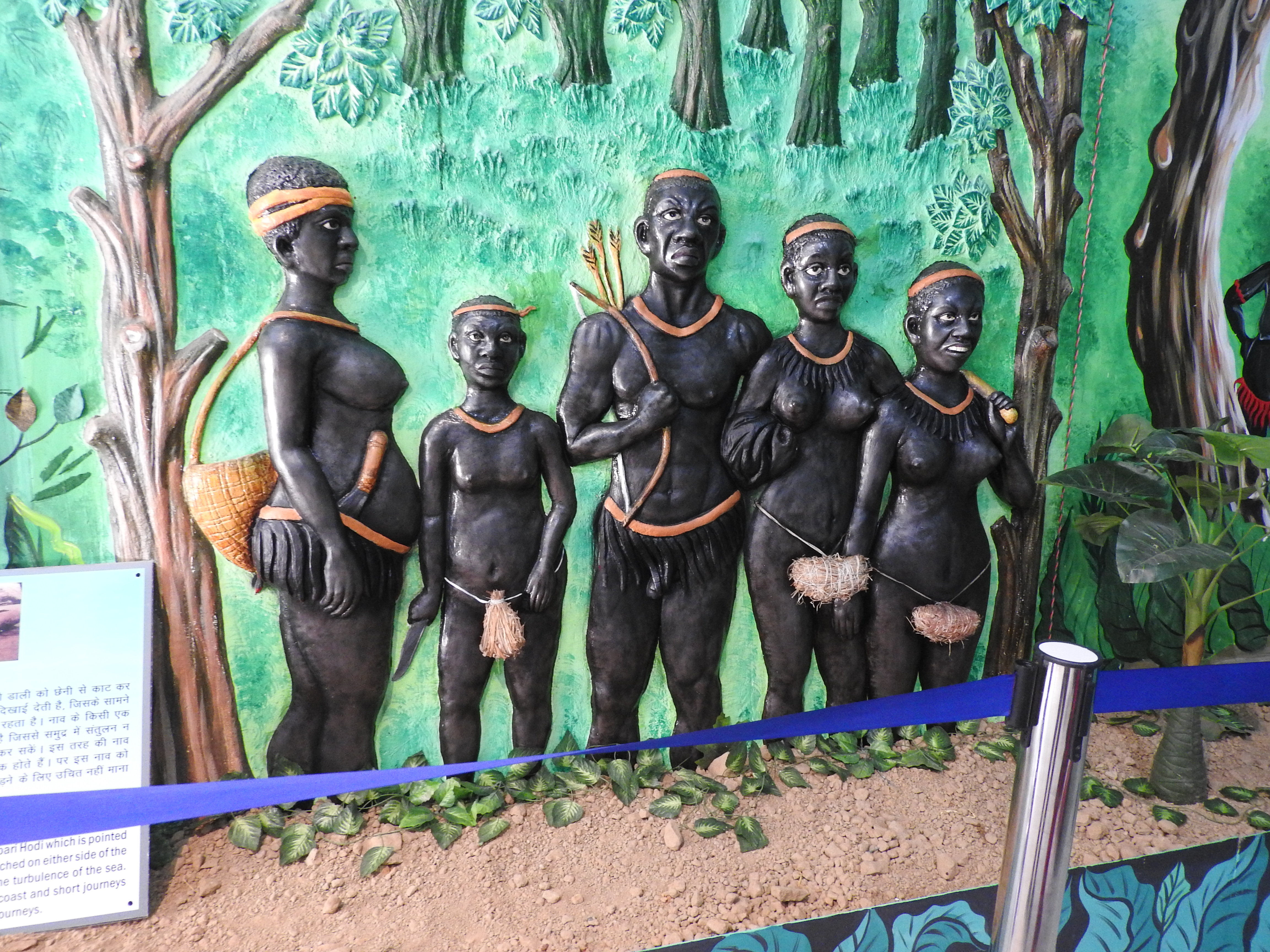 Jarawas statue in samudrika naval marine museum,Andaman.